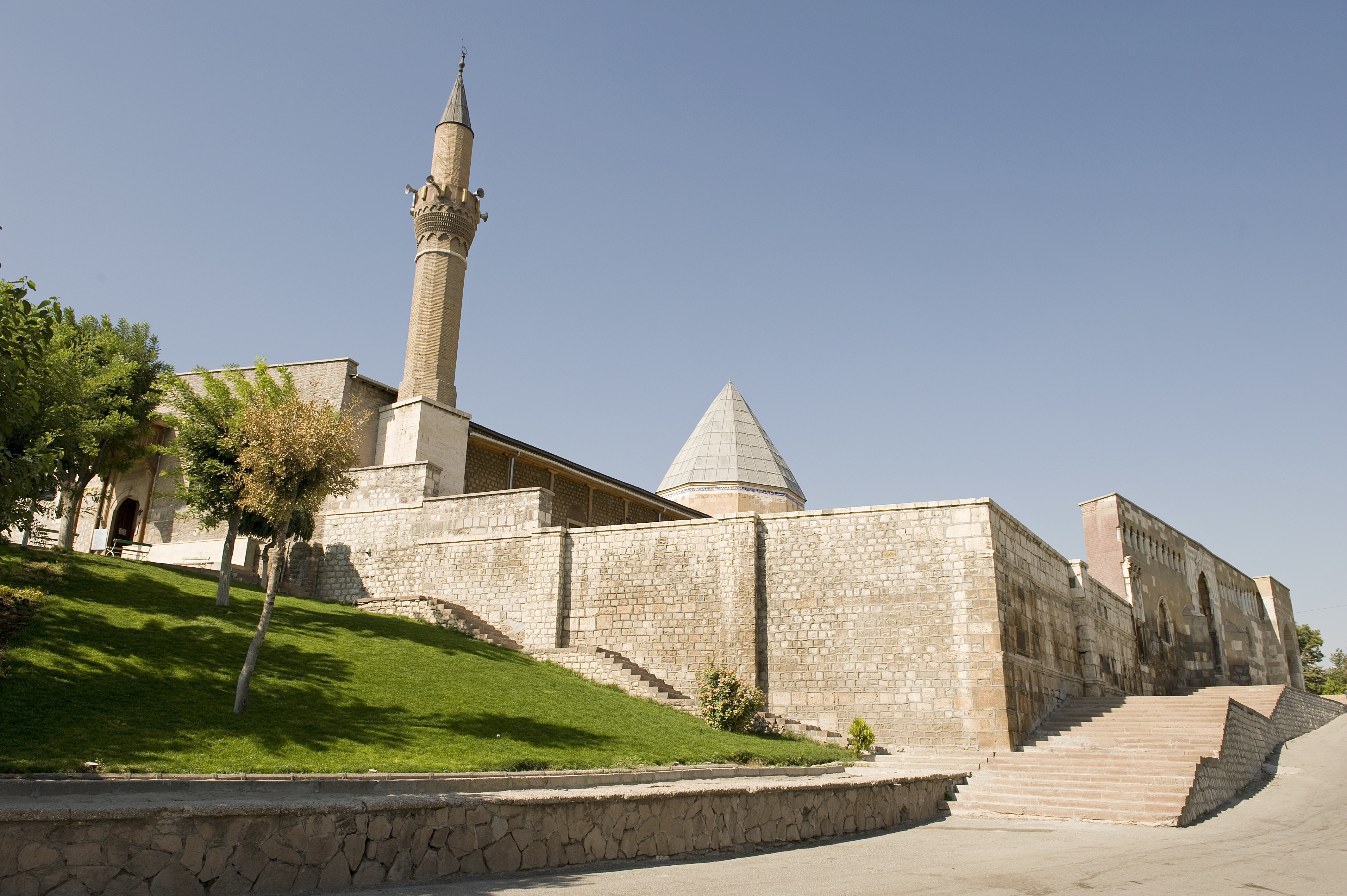 We see the front, and the mosque, on higher ground in its courtyard.